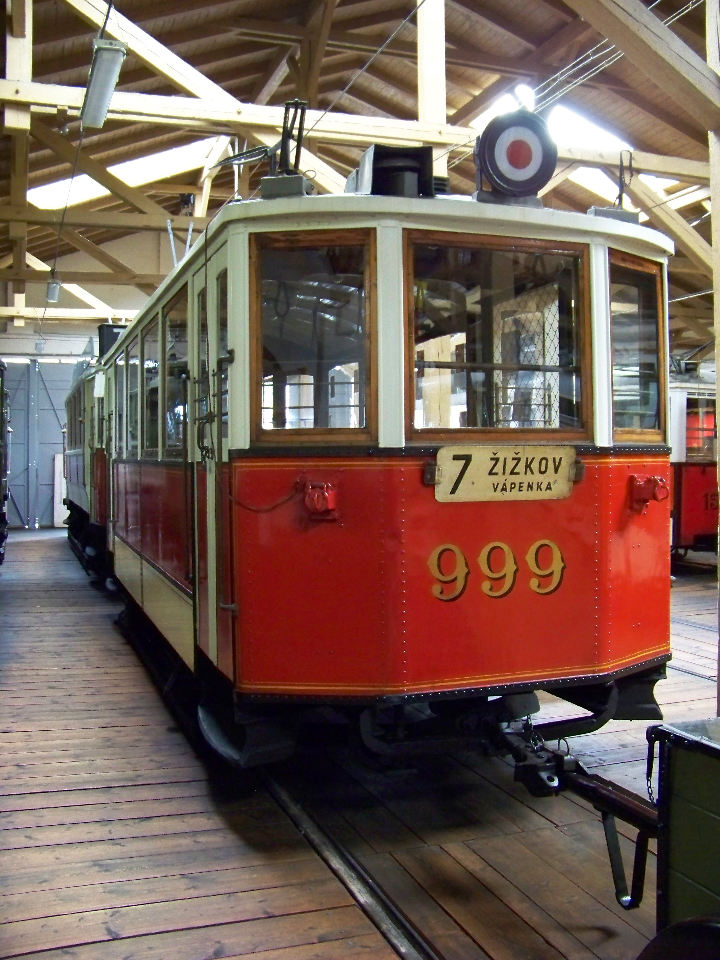 Prague-Střešovice, Czech Republic. Střešovice tram depot, Public Transport Museum. A tram.